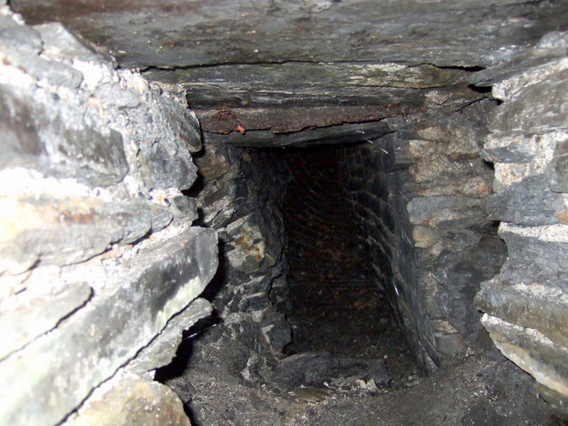 Llanfyrnach mine: adit By peering down into a surface level opening, masonry-lined tunnels about 2-3 feet in height can be seen leading either way in a roughly north-south direction.